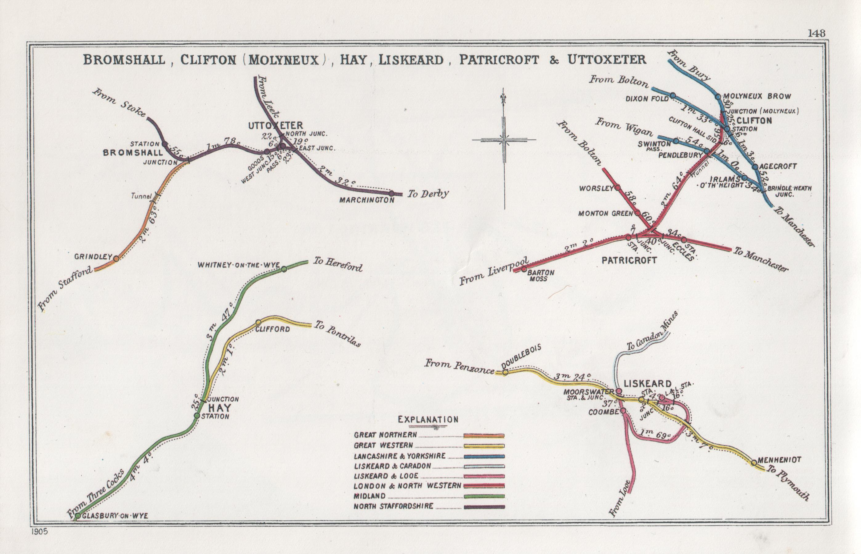 Pre Grouping railway junction around Bromshall, Clifton (Molyneux), Hay, Liskeard, Patricroft & Uttoxeter